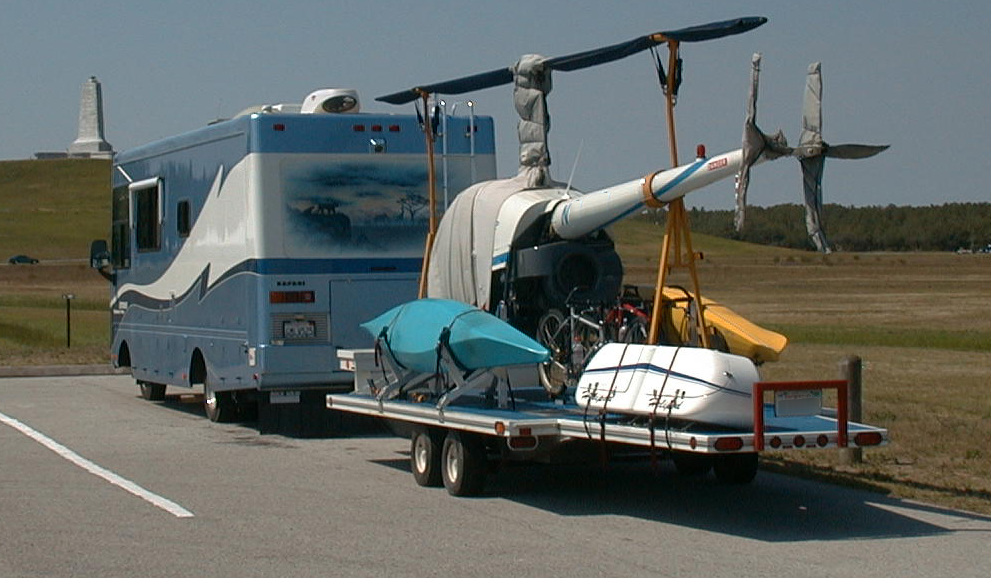 Robinson R22 Helicopter On Trailer at Kitty HawkThe trailer is 30-feet long and 8-feet wide and weighs approximately 3500 lbs with R22, fuel, kayaks, and bikes. There is a 60-gallon fuel tank above the axle (enough for two fill ups of the R22). The trailer holds two kayaks and two bicycles. The white boxes are Helipods that attach to the outside of the R22 for additional storage in flight. The helicopter is flown off of and landed on the trailer. It takes approximately 30 minutes to prepare for flight and 45 minutes to completely secure everything for transportation.